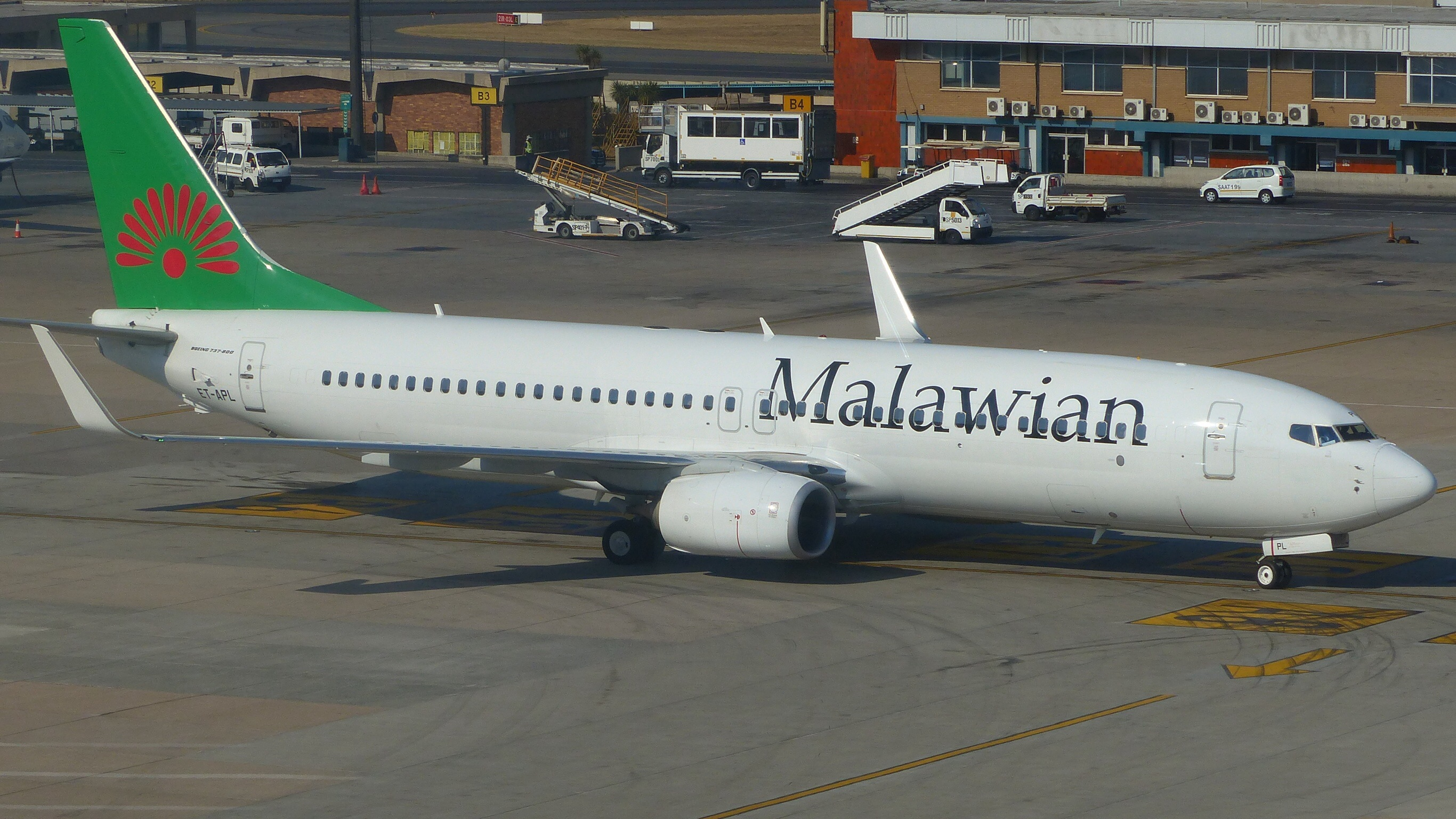 Malawian Airlines Boeing 737-800 (ET-APL) at OR Tambo International Airport